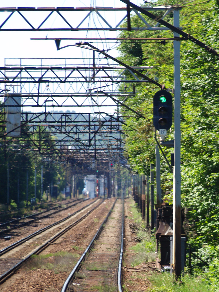 ABS semaphore by railway track, near Gdańsk Politechnika train stop.